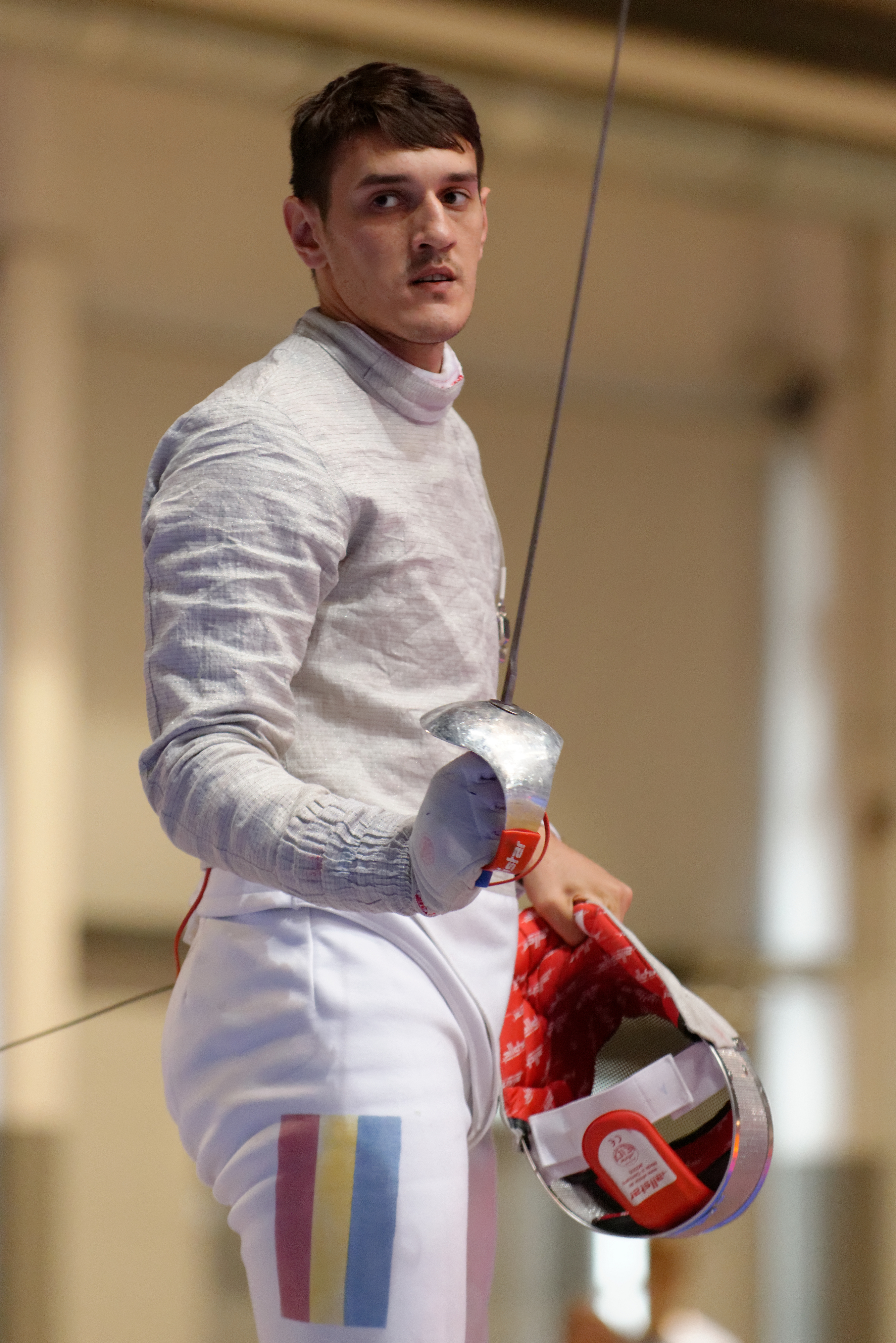 Romania's Alin Badea during their T16 match against Poland in the men's team sabre event of the 2013 World Fencing Championships at Syma Hall in Budapest, 10 August 2013.